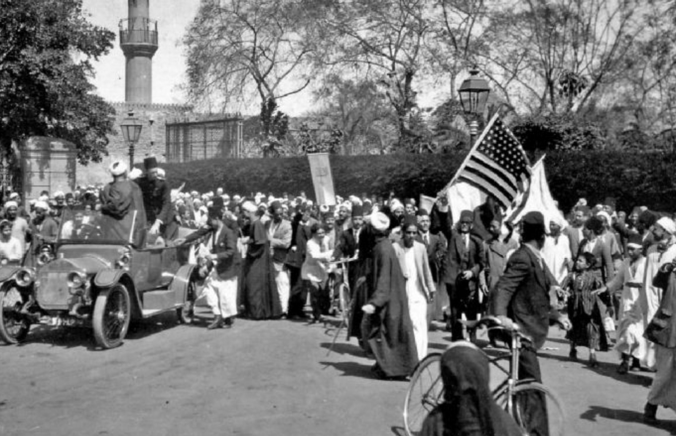 American flag in the 1919 revolution